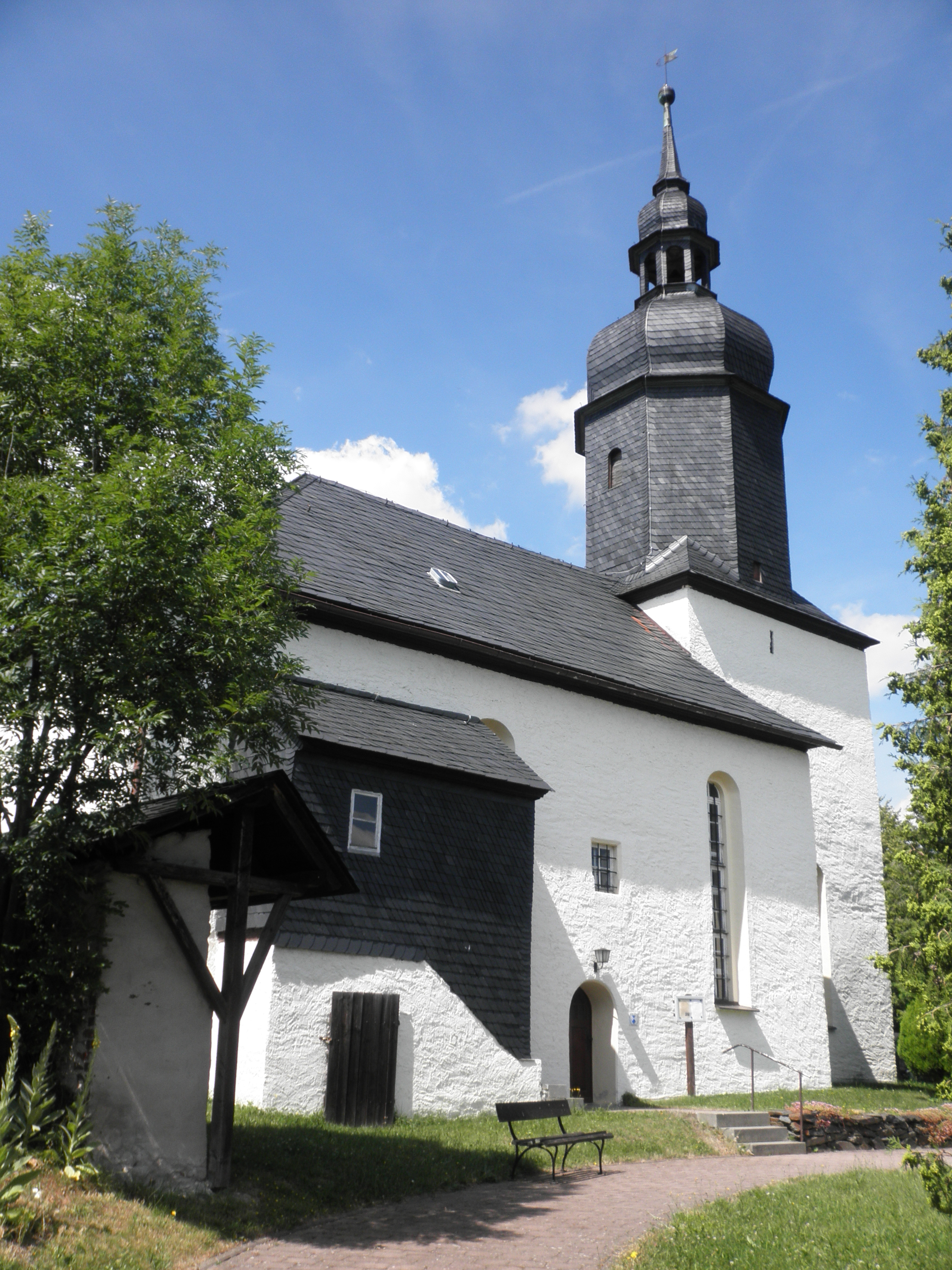 Church in Altenbeuthen in Thuringia